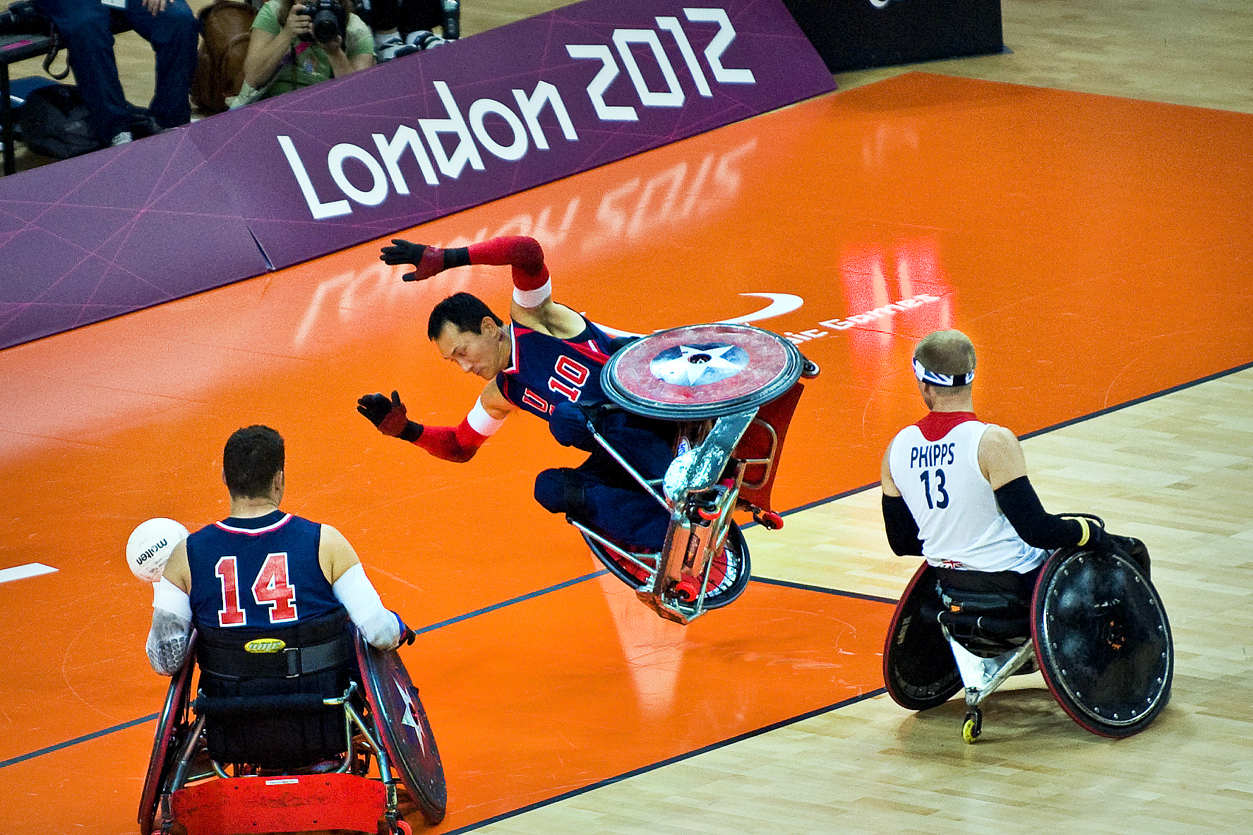 LONDON (Sept. 10, 2012) Will Groulx, center, a U.S. Navy veteran and a team captain for the 2012 U.S. Paralympic Rugby Team, falls after a member of the Great Britain team crashes into him during a match at the Riverbank Arena during the Paralympic Games in London. (U.S. Air Force photo by MSgt Sean M. Worrell/Released) 120905-F-FD742-625